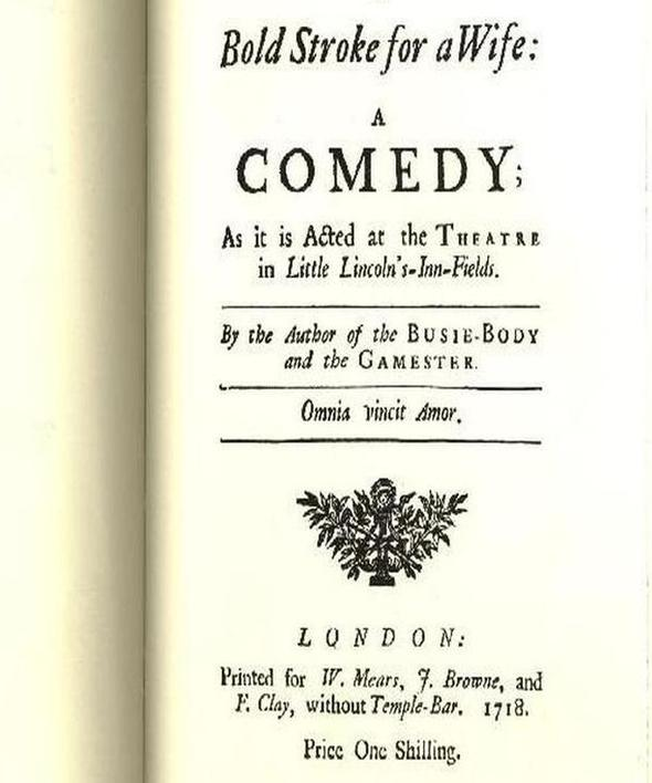 Title page of first edition of A Bold Stroke for a Wife (1718) play by Susanna Centlivre.